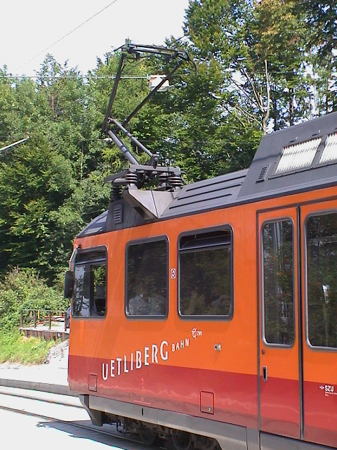 Detail of Uetlibergbahn class Be 4/4 motor car: the pantograph on the off-centre contact wire.